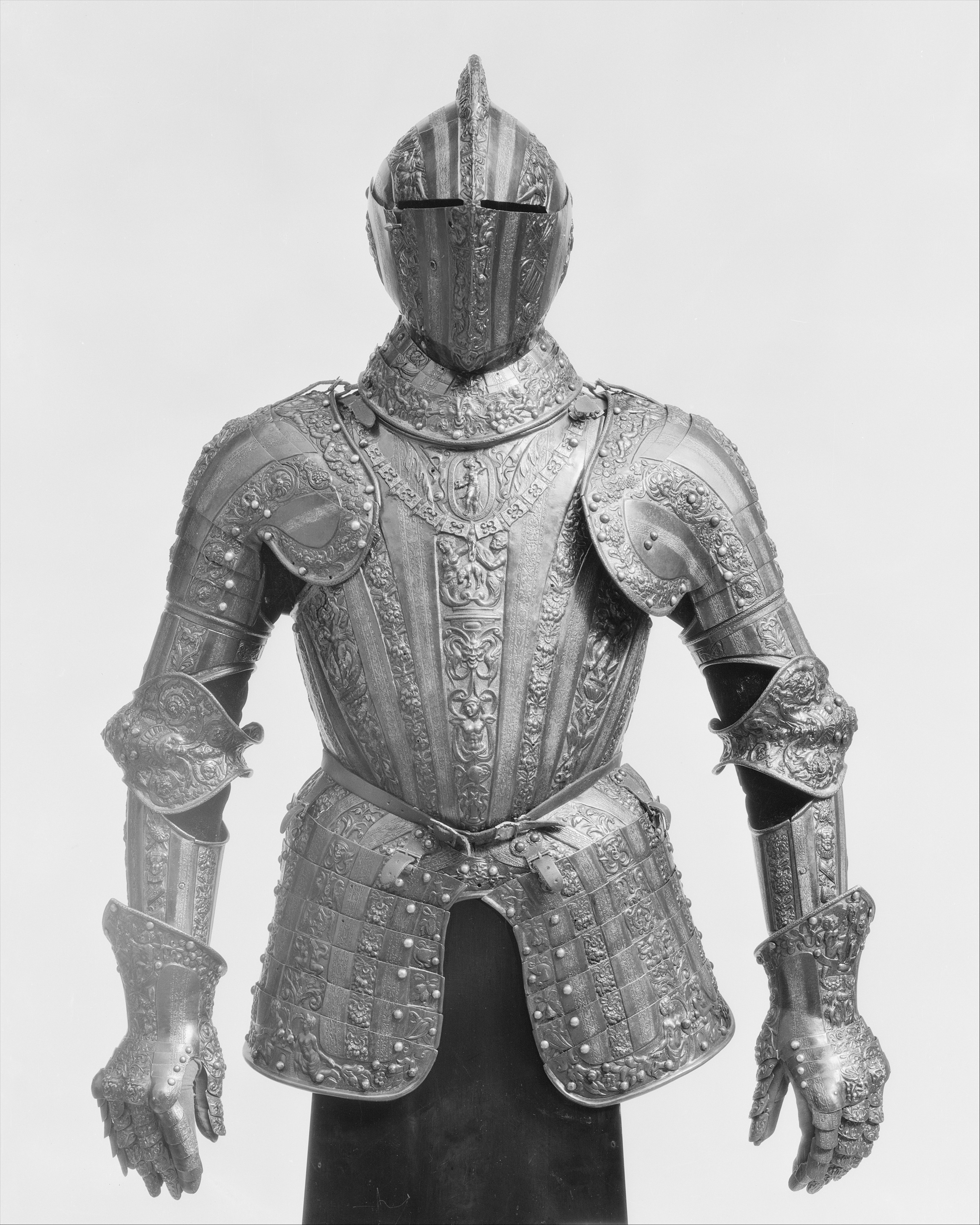 Italian, Milan; Half armor; Armor for Man-1/2 Armor